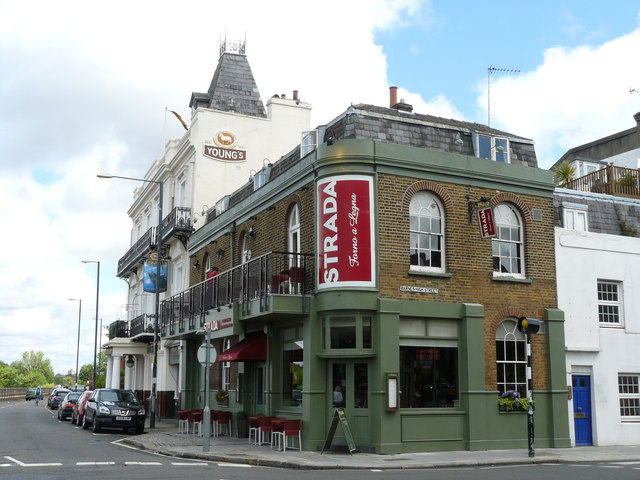 Strada, Barnes. Smart-looking Italian restaurant at the junction of Barnes High Street and Lonsdale Road.